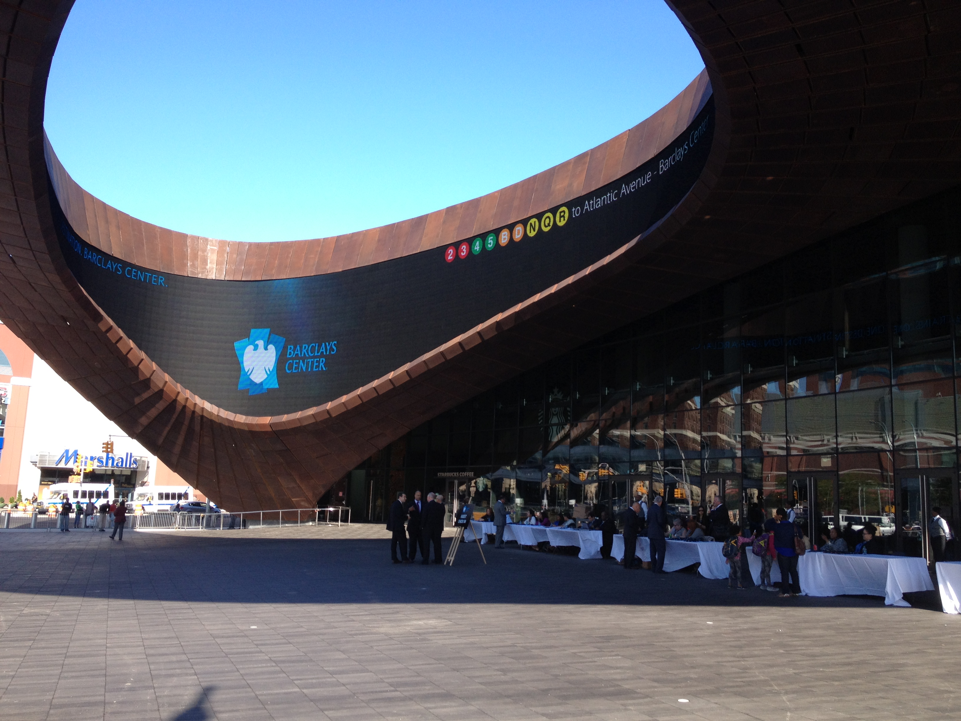 View of the signature feature of the Barclays Center arena